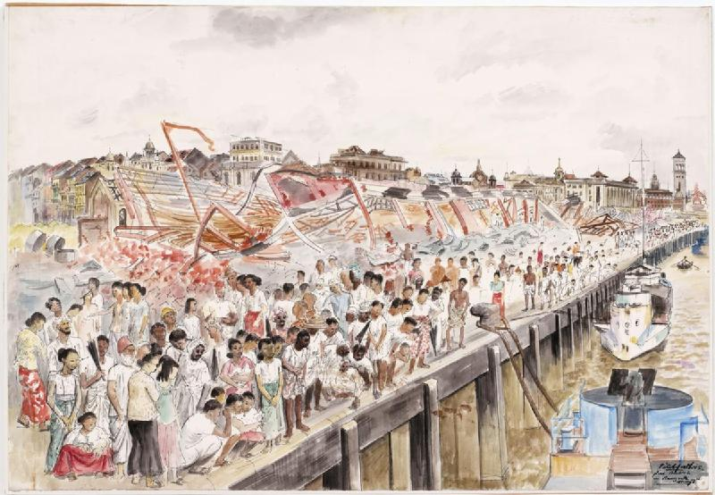 The First British Troops in Rangoon image: a view from a ship towards the quay side where civilians are gathering to welcome the troops. Behind the crowds the twisted wreckage of some bombed buildings are just visible.